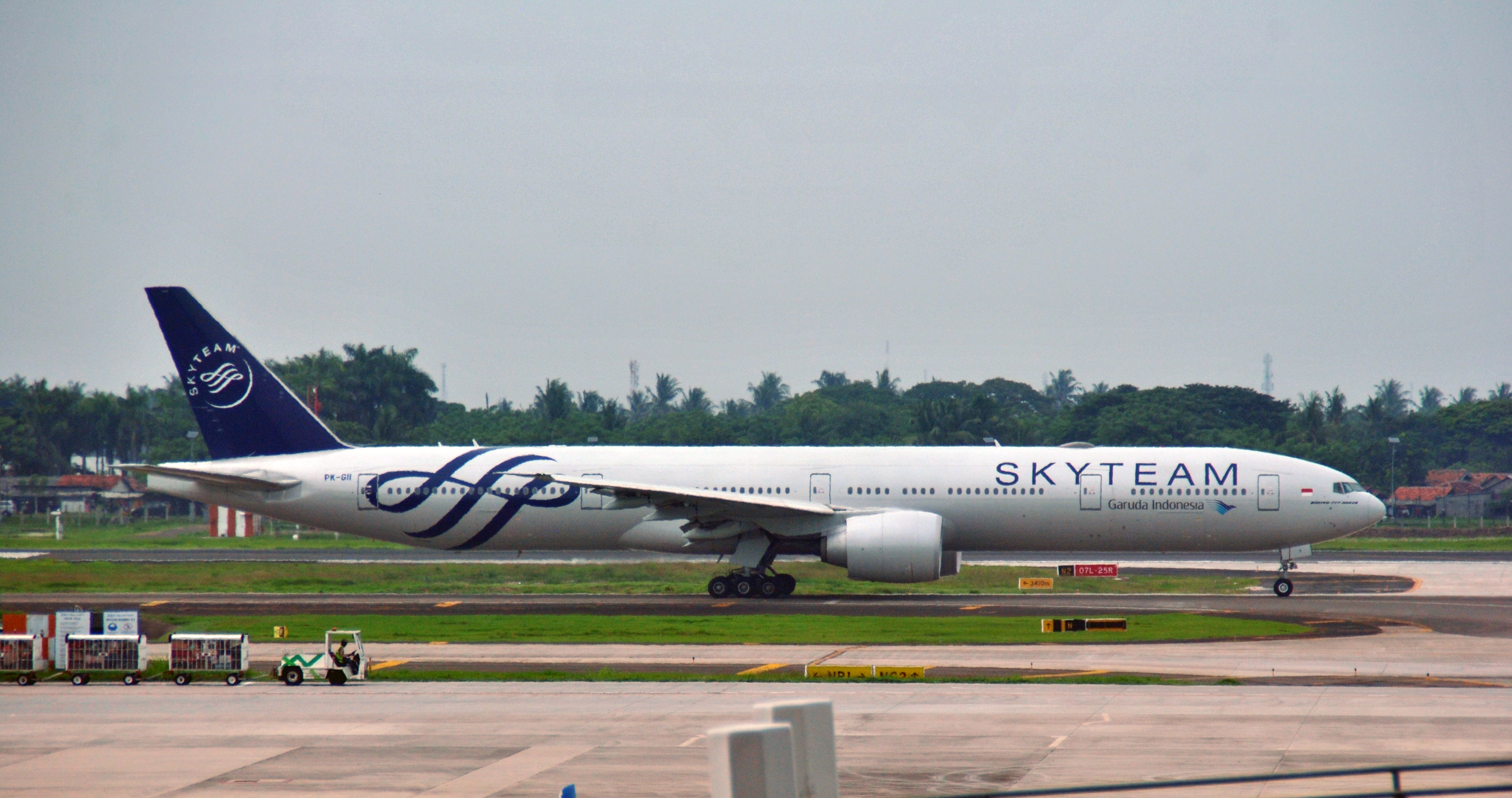 Garuda Indonesia Boeing 777-300ER (PK-GII - SkyTeam livery) on taxi, Soekarno-Hatta Airport, Cengkareng, Banten.